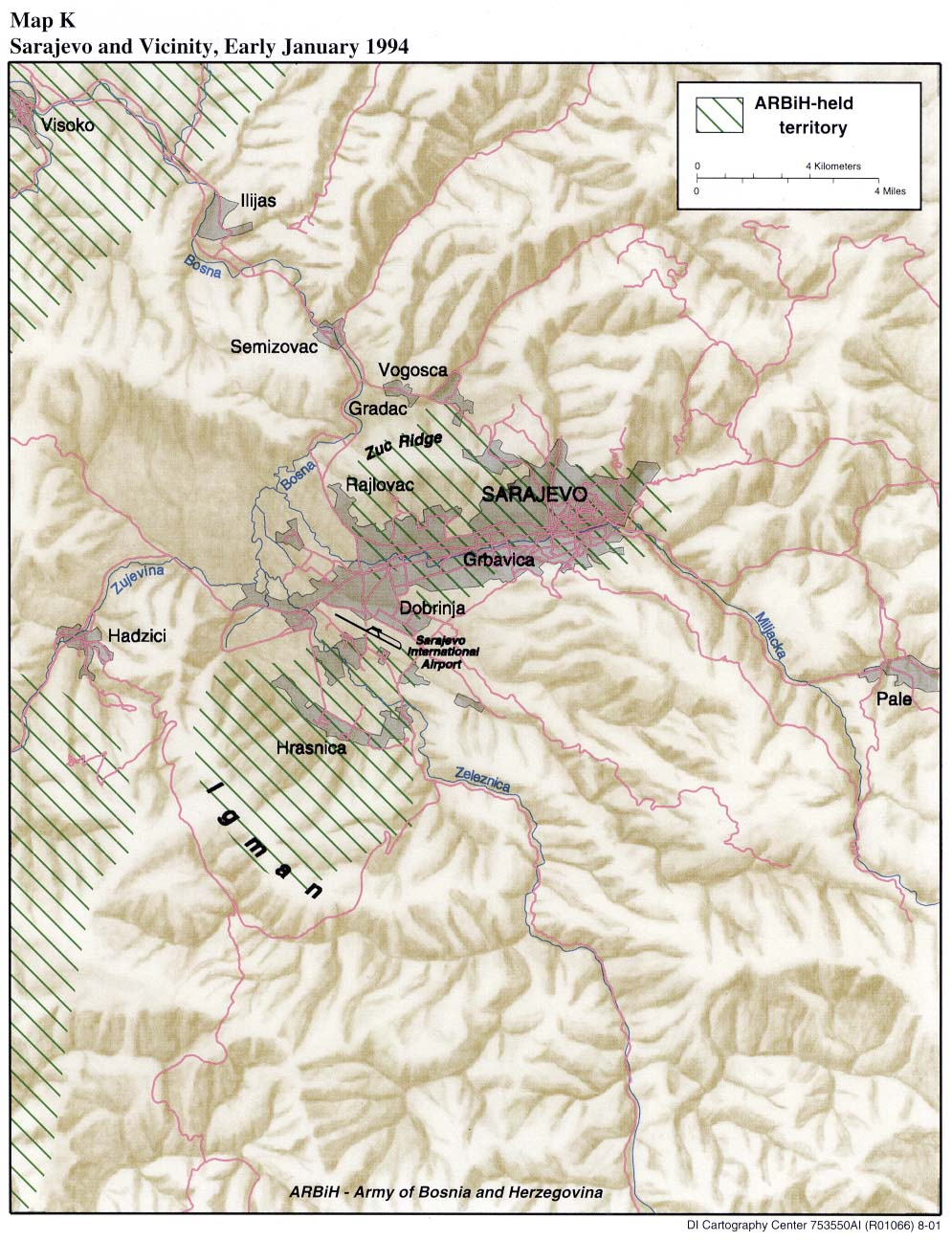 Sarajevo and Vicinity, Early January 1994